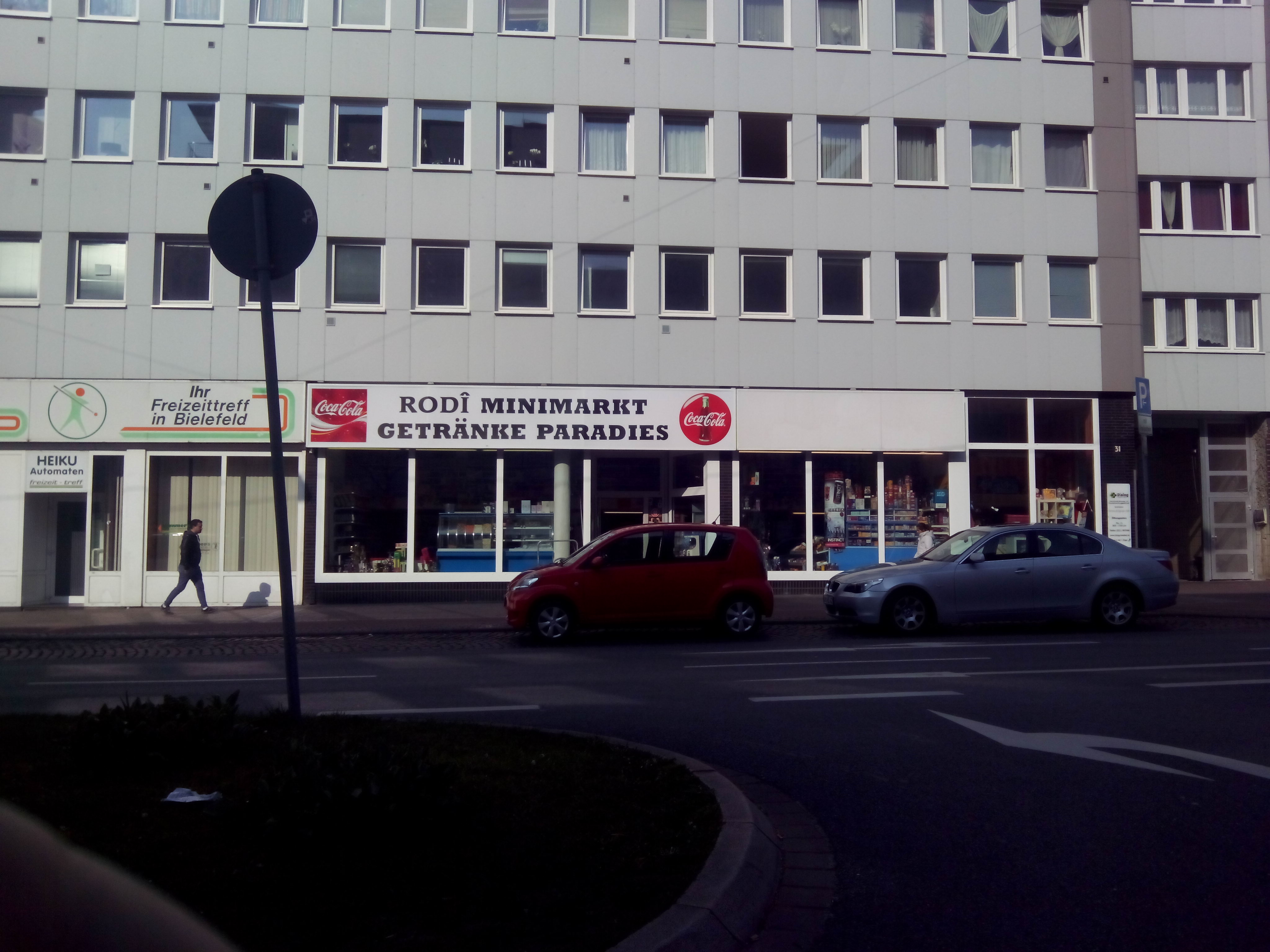 A Kurdish supermarket in Bielefeld, Germany